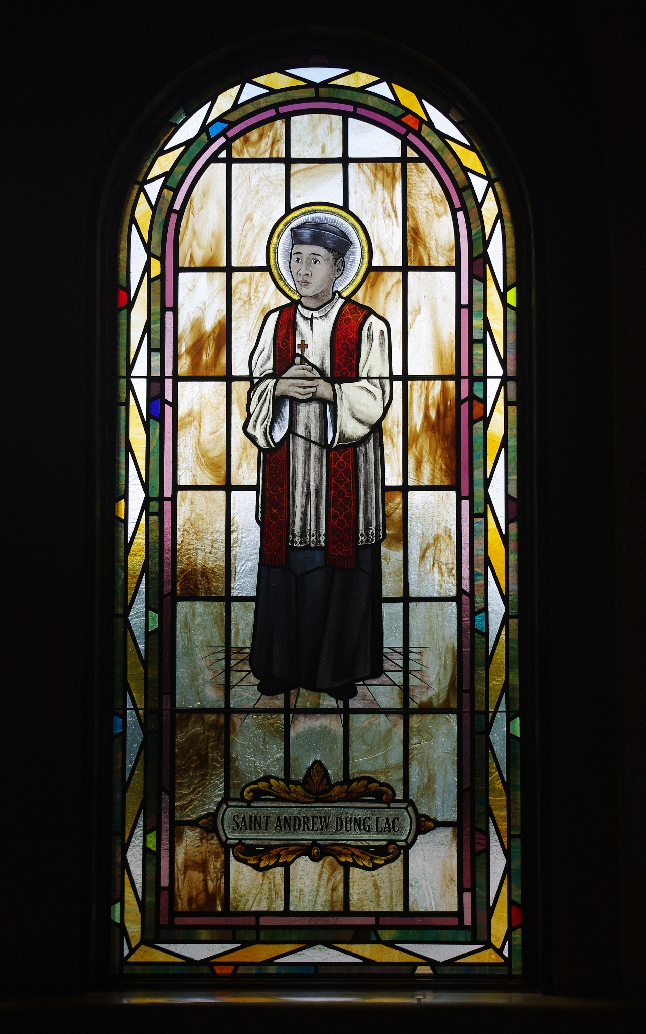 Saint Paul Catholic Church (Westerville, Ohio) - stained glass, arcade, Saint Andrew Dung Lac